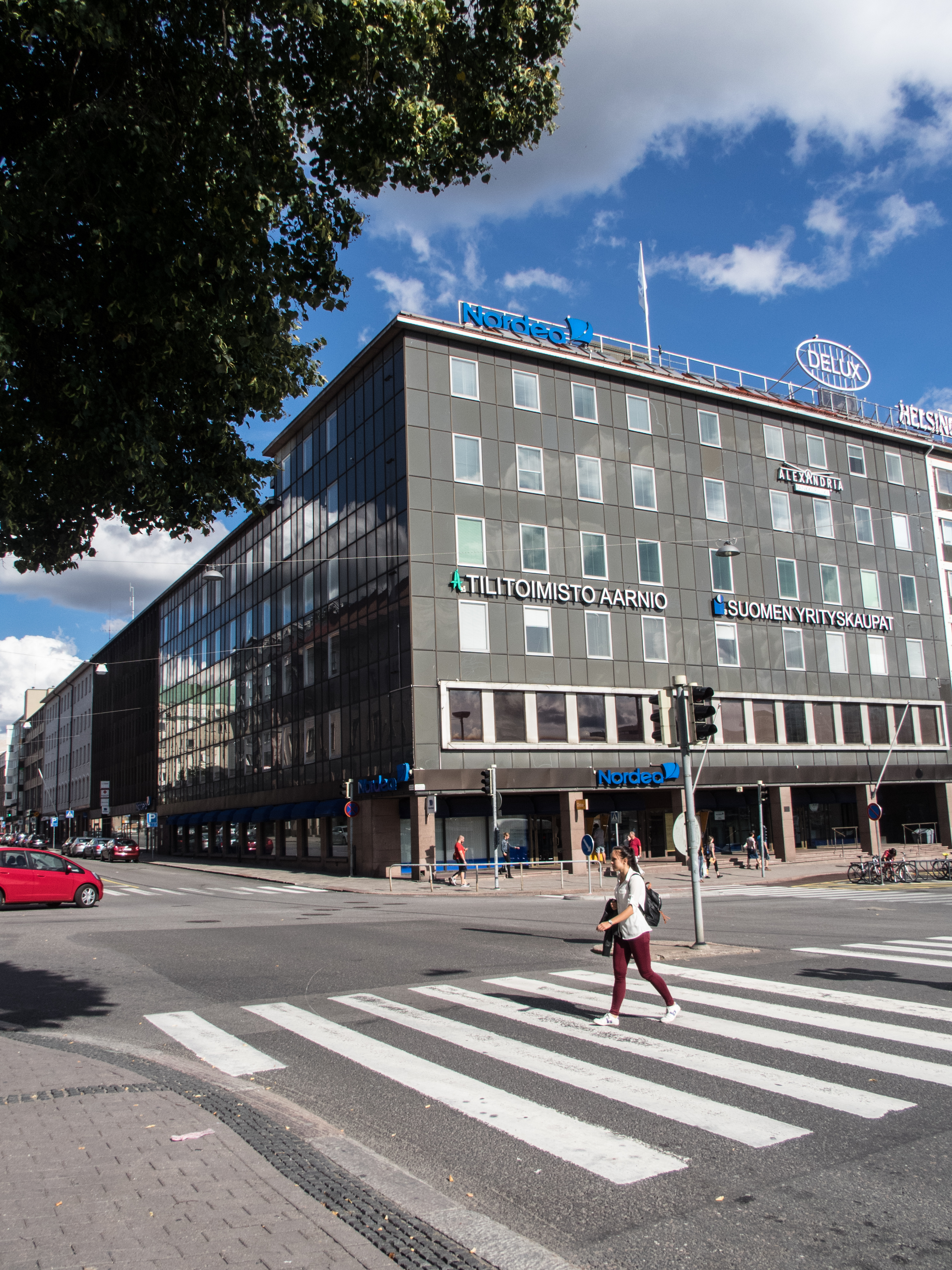 Old Savings Bank building, originally a classicist building by Albert Richardtson in 1926, heightened by architect Erik Bryggman and modernised by architect Aarne Ehojoki.